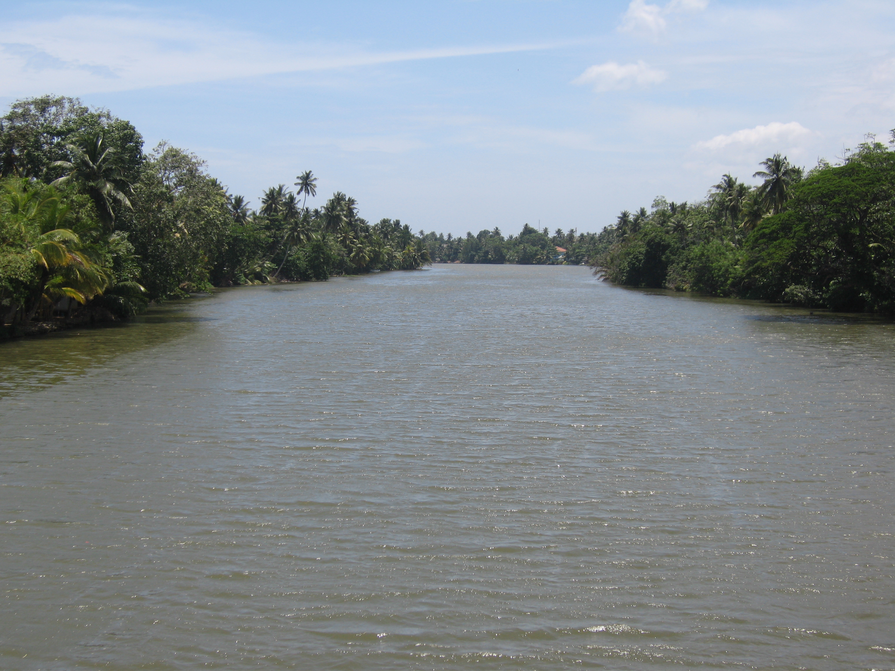 Nilwala River Matara Sri Lanka